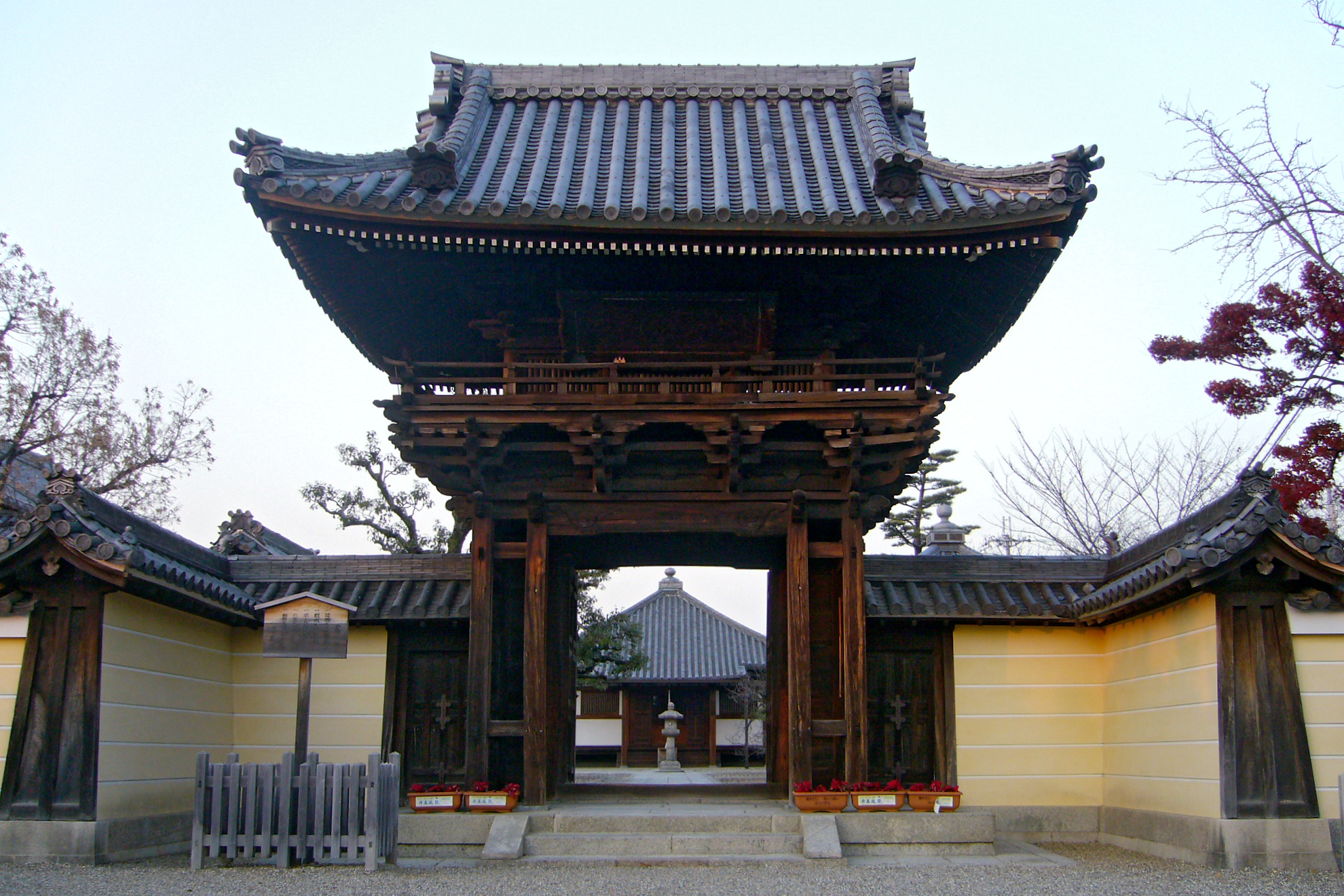 Domyo-ji in Fujiidera, Osaka prefecture, Japan